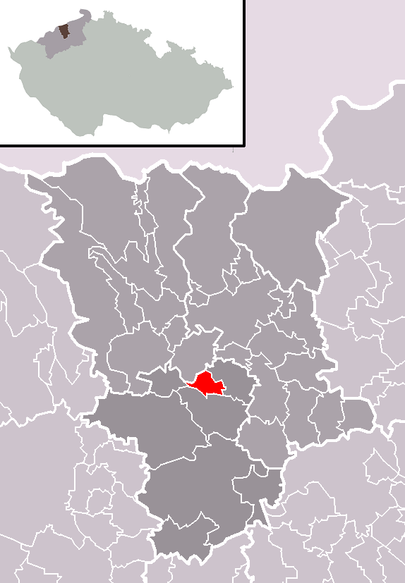 Location of Hostomice market town within Teplice District and administrative area of Bílina as a Municipality with Extended Competence.